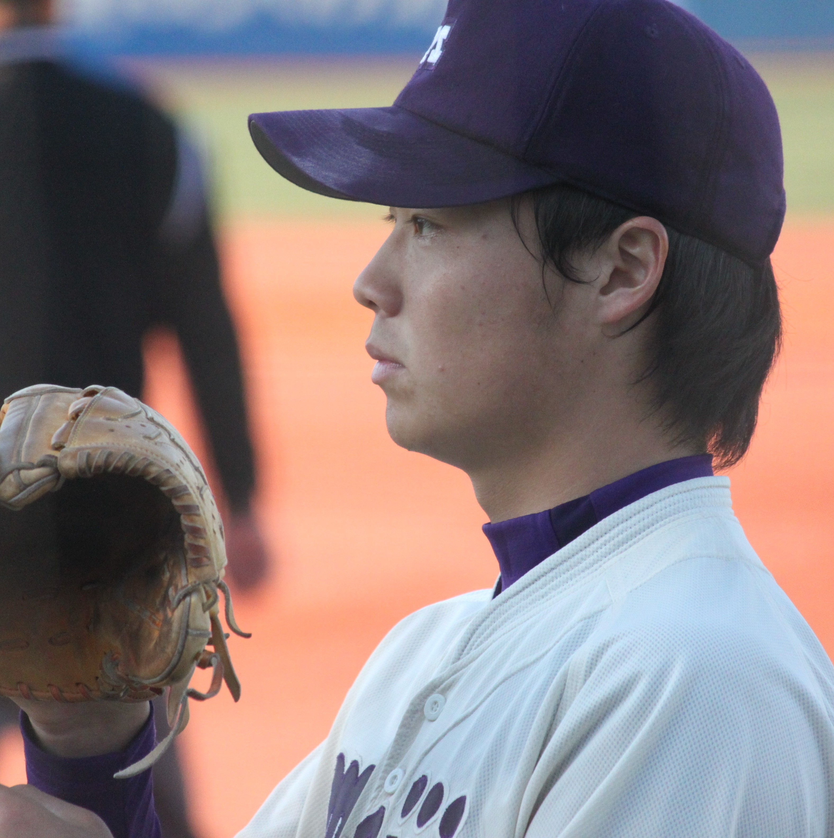 Sachiya Yamasaki, pitcher of the Meiji University Baseball Club, at Meiji Jingu Stadium.